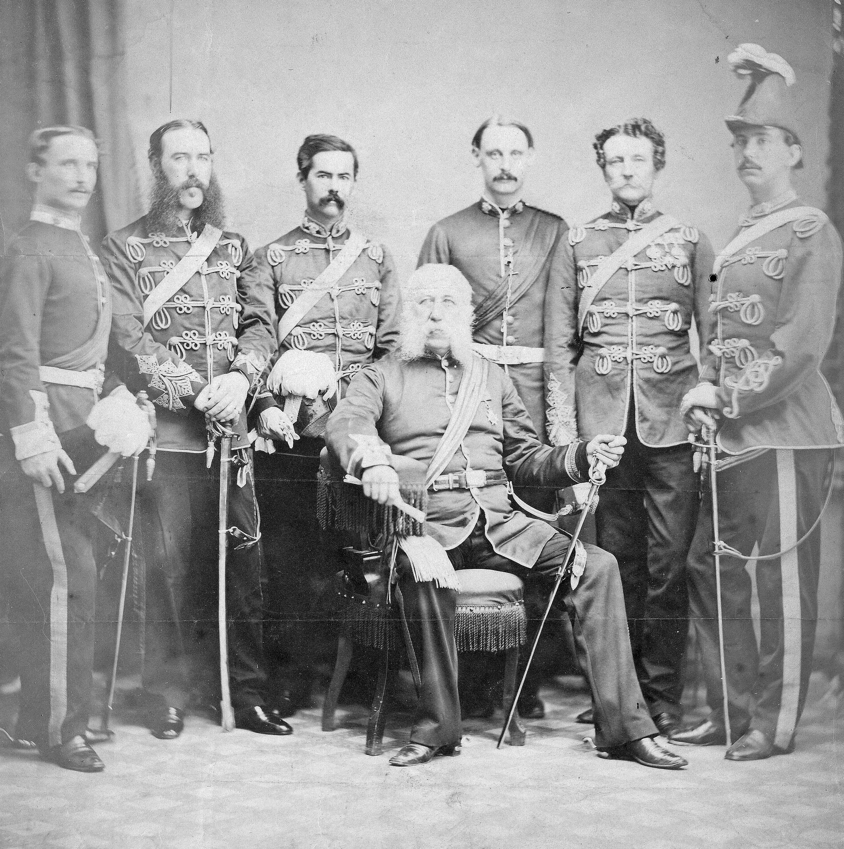 A picture of officers involved in the Morant Bay Rebellion. Including Luke Smythe O'Connor, R. F. Ballantine, William Walker Whitehall Johnston, and Alexander Abercromby Nelson.